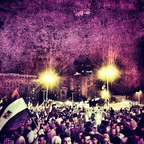 "#BelovedEgypt - Red cards are being waved by thousands of demonstrators in Egypt’s Tahrir Square to demand the resignation of Egypt's Islamist President Mohamed Mursi. June 30th the day many Egyptians had been waiting for, with either excitement or dread"